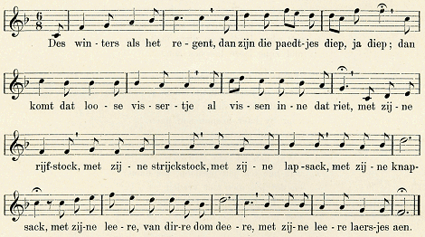 Musical notation of the folk song 'Des winters als het regent' (Het loze vissertje). In: Florimond van Duyse, "Het oude Nederlandsche lied" (part 1, 1903). Page 837 (song number 229).